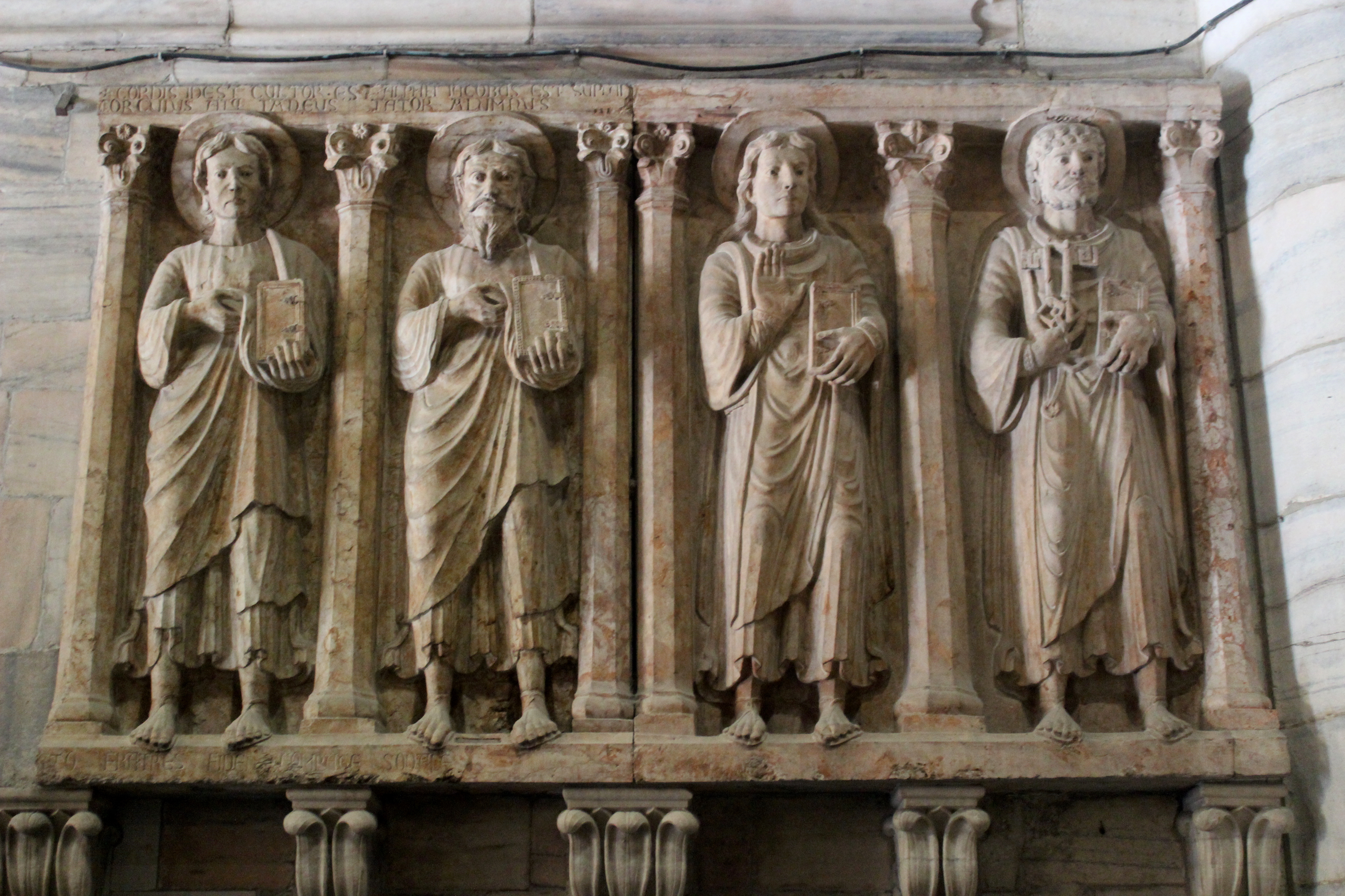 Cathedral in Milan, Italy. One of the twin romanesque reliefs (possibly by some Campiones master) of saints bearing books. It dates from the late 12th century. Formerly in the Basilica di Santa Maria Maggiore, which was demolished to build the Duomo itself.